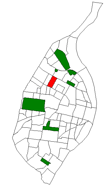 Map of St. Louis neighborhood #55